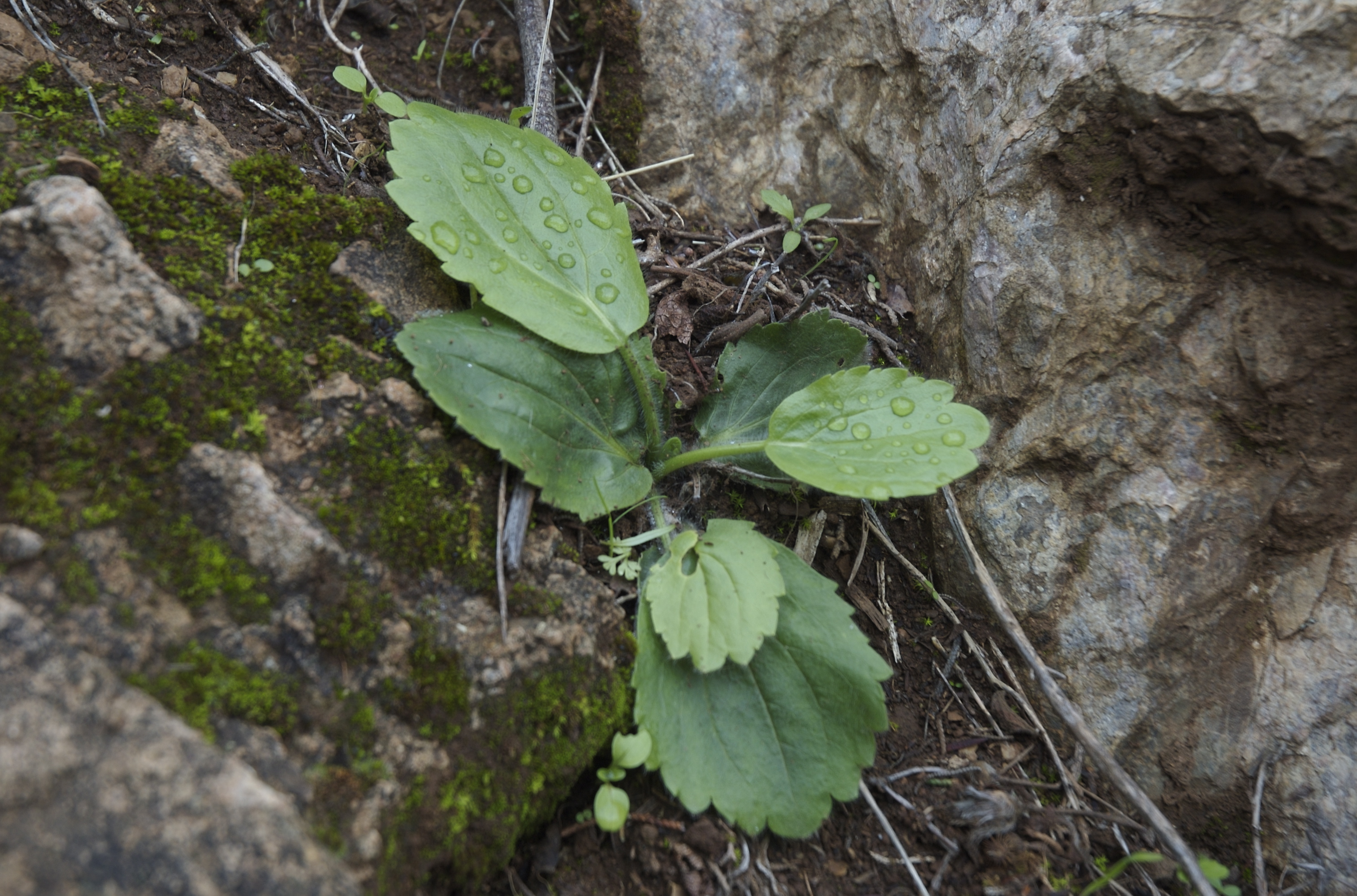 Lots of this need to get back in aurtum. near Ouirgane